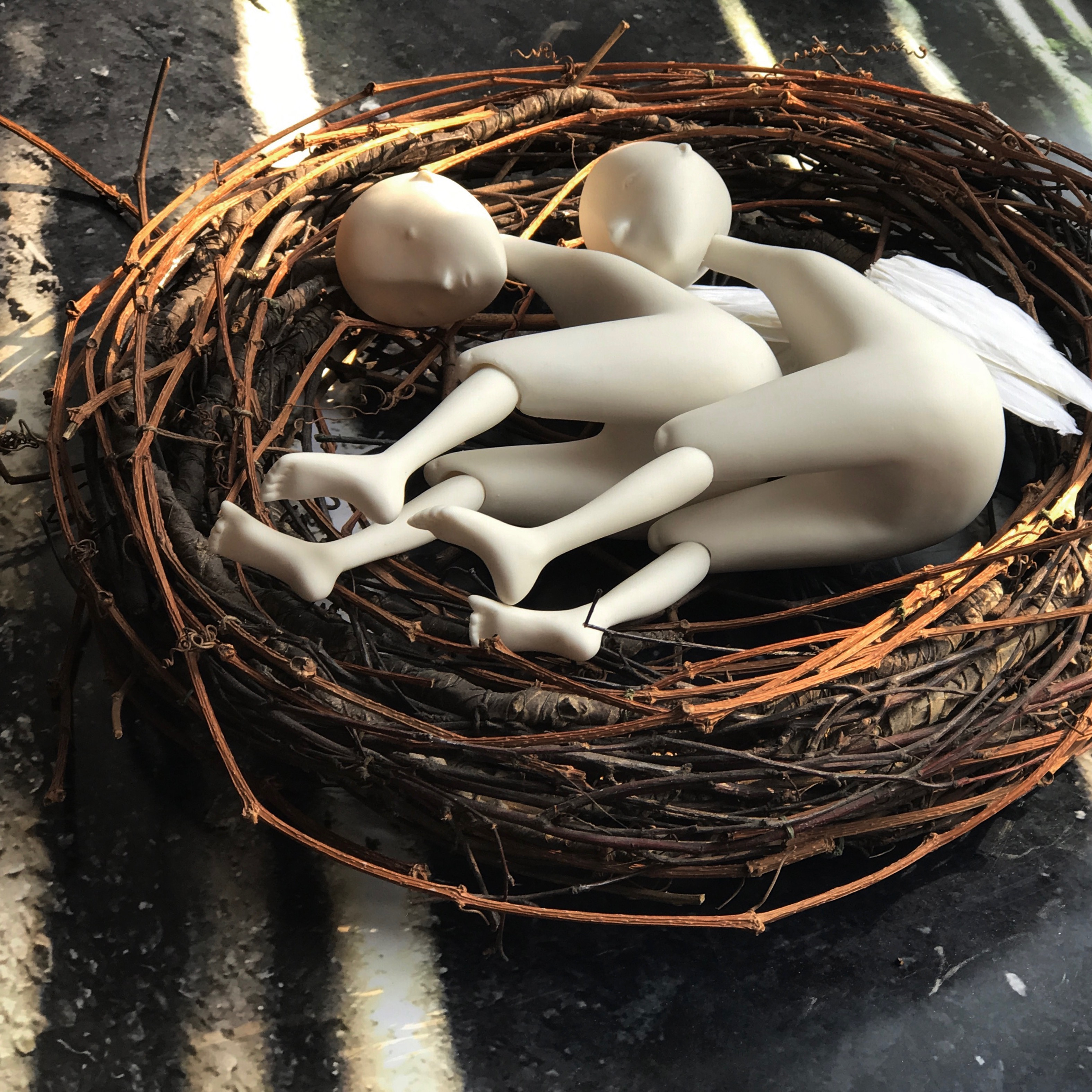 INTRO Project,exhibited in Moscow,Gostiniy Dvor 2017